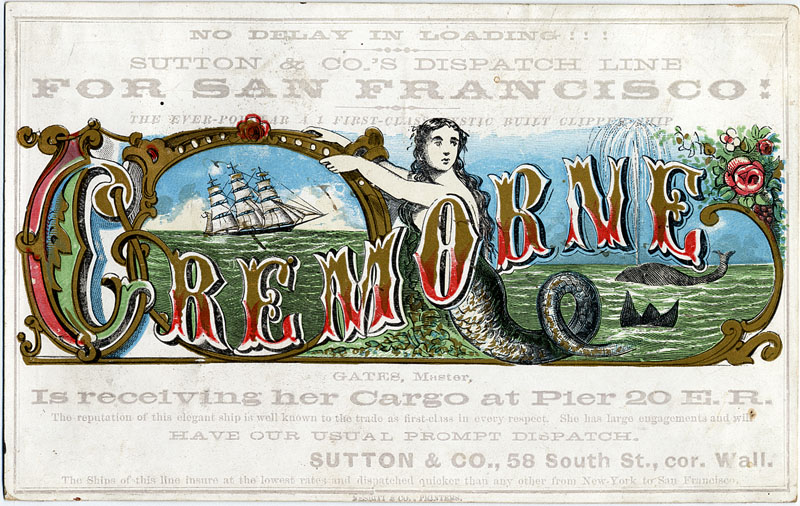 CREMORNE Clipper ship sailing card Gates, master